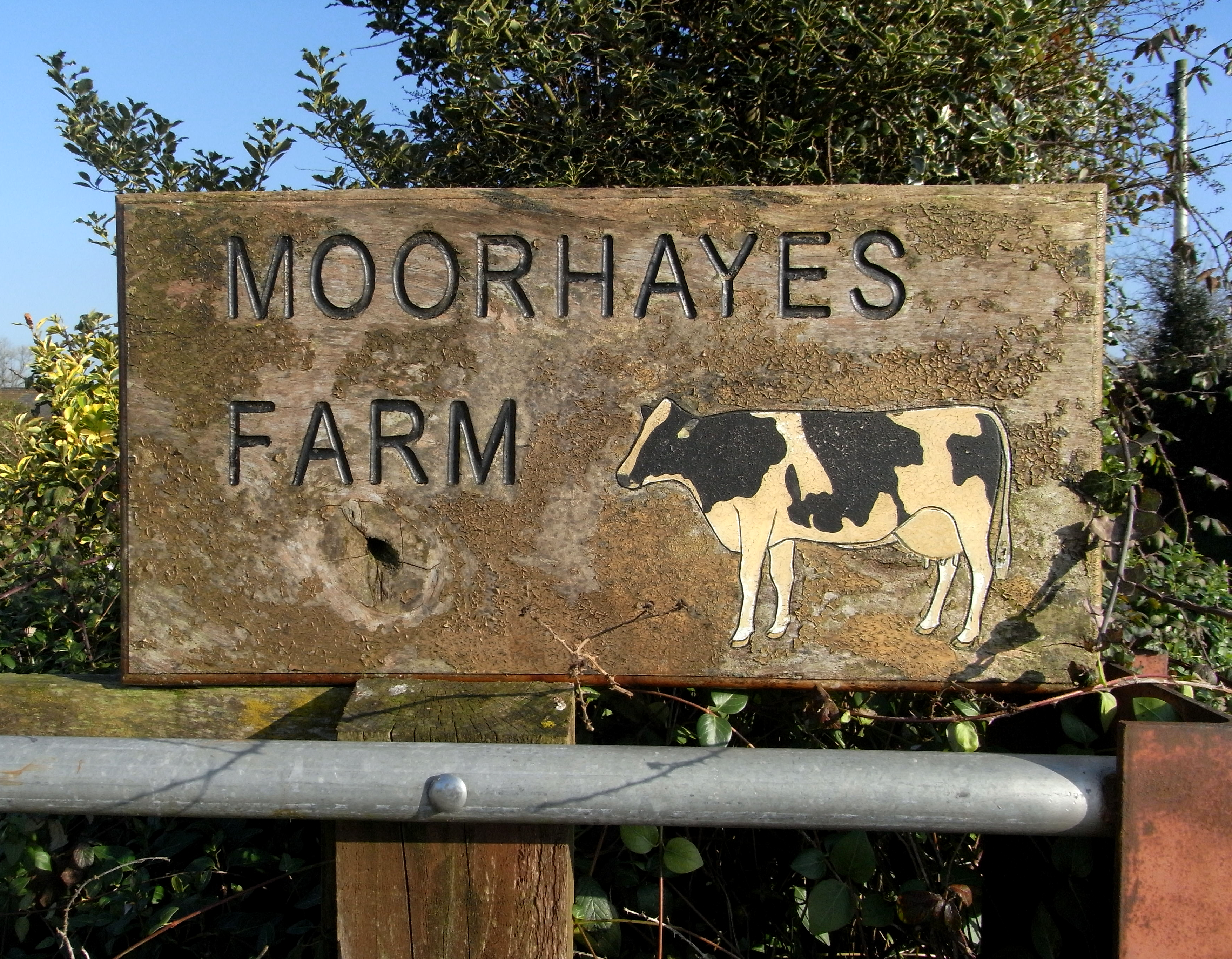 House sign to "Moorhayes Farm" in the parish of Cullompton, Devon, England, remnant of the ancient mansion house ("Moore Hayes") of the Moore family, viewed in 2017.